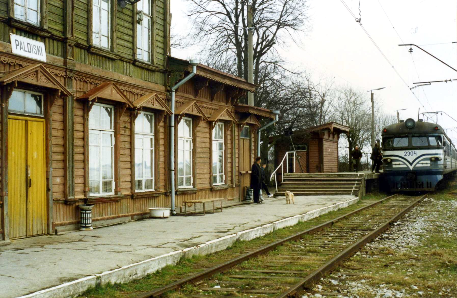 Soviet electric multiple unit nr. 2304 at Paldiski on the shuttle service from Tallinn.